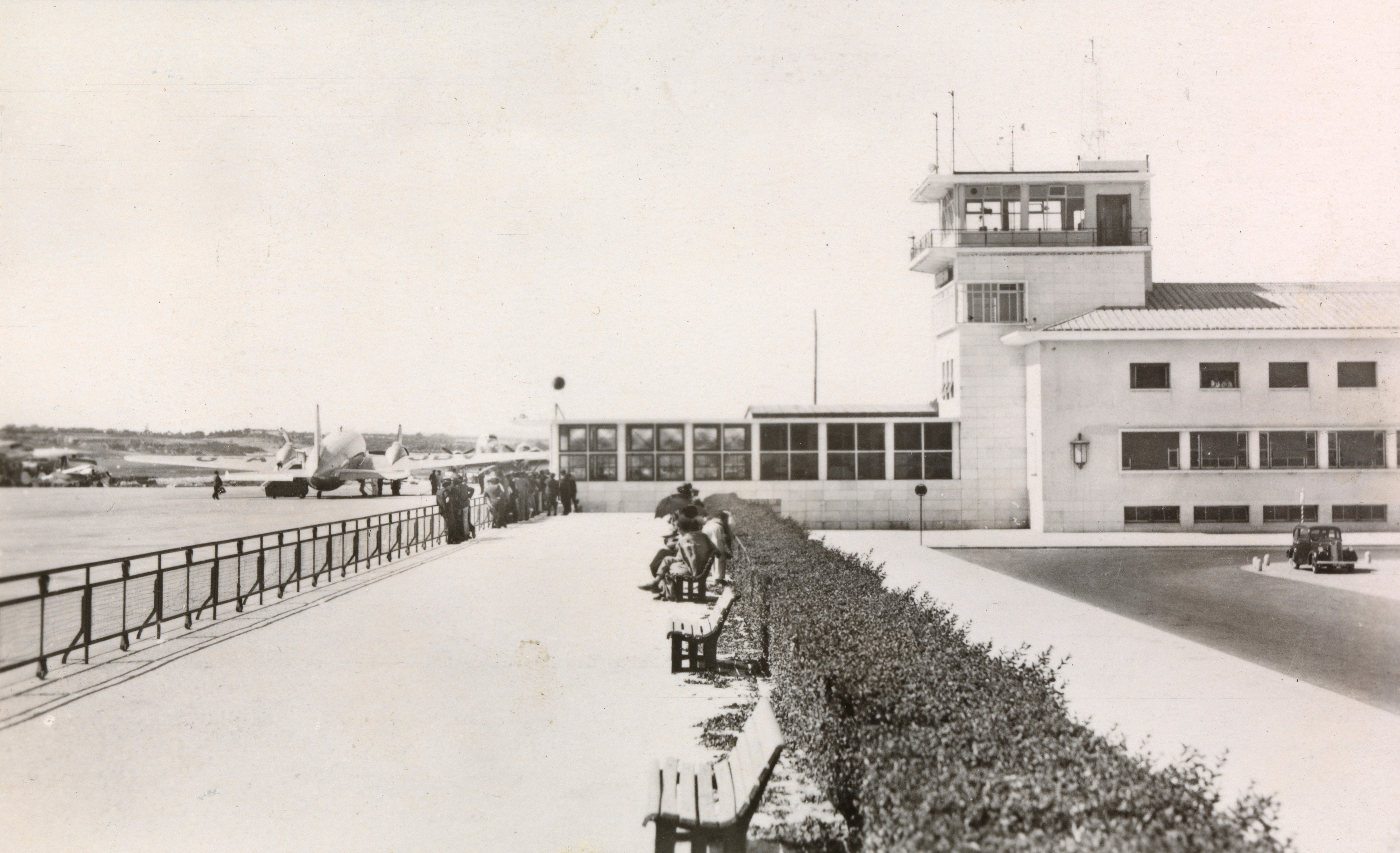 Lisbon Airport; Lisbon, Portugal